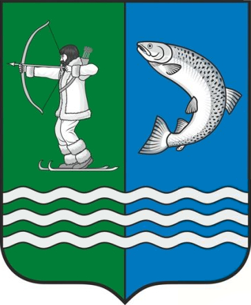 Coat of Arms of Belomorsky District (Republic of Karelia), 2019